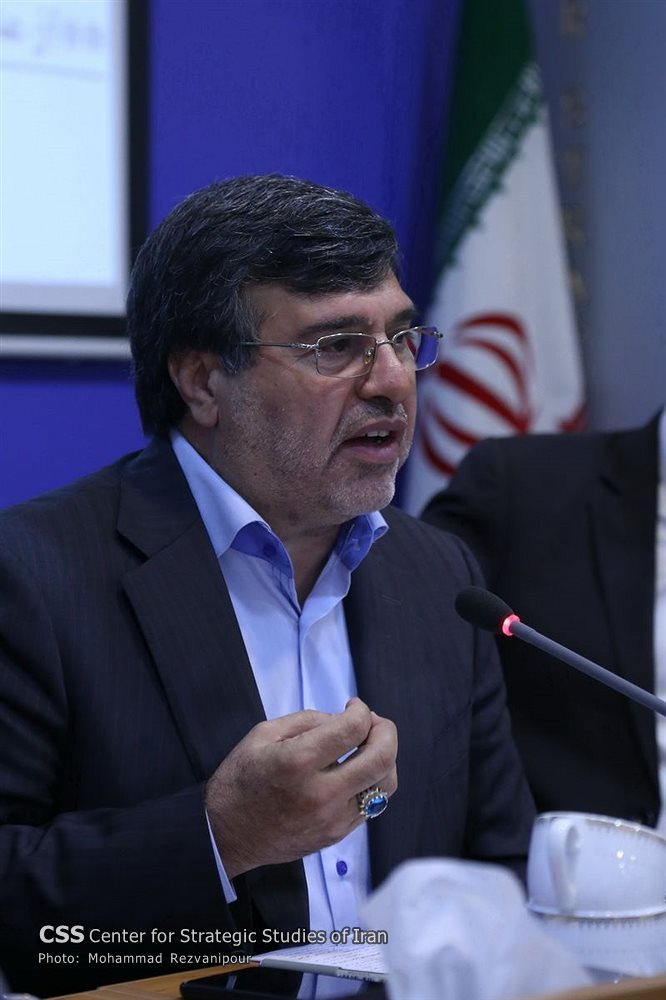 Fereydun Hemmati, governor of Hormozgan Province of Iran